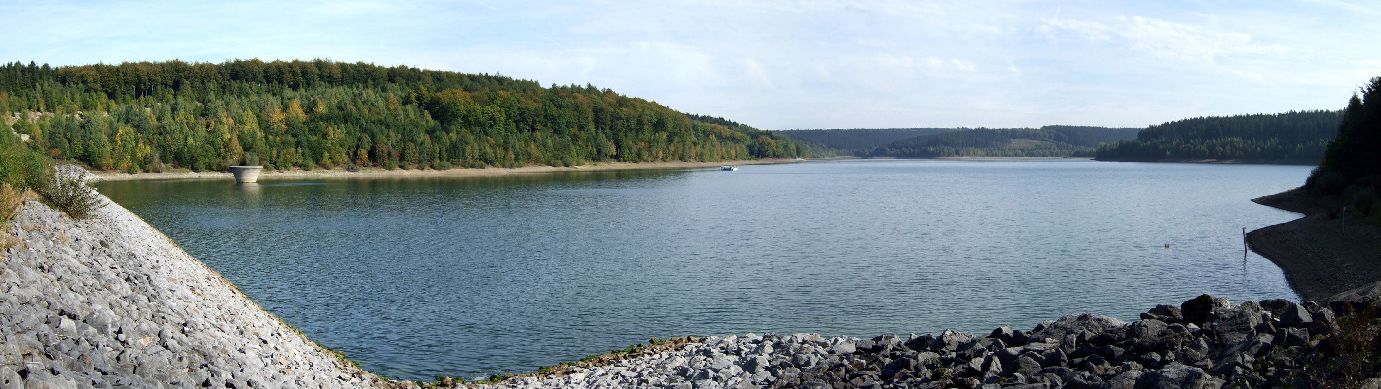 Aabach Lake, North Rhine-Westphalia, Germany, view from South side of the dam - 5 pictures stitched